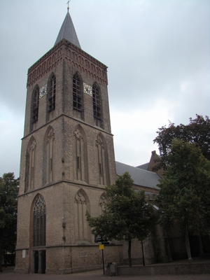 Church of Ede